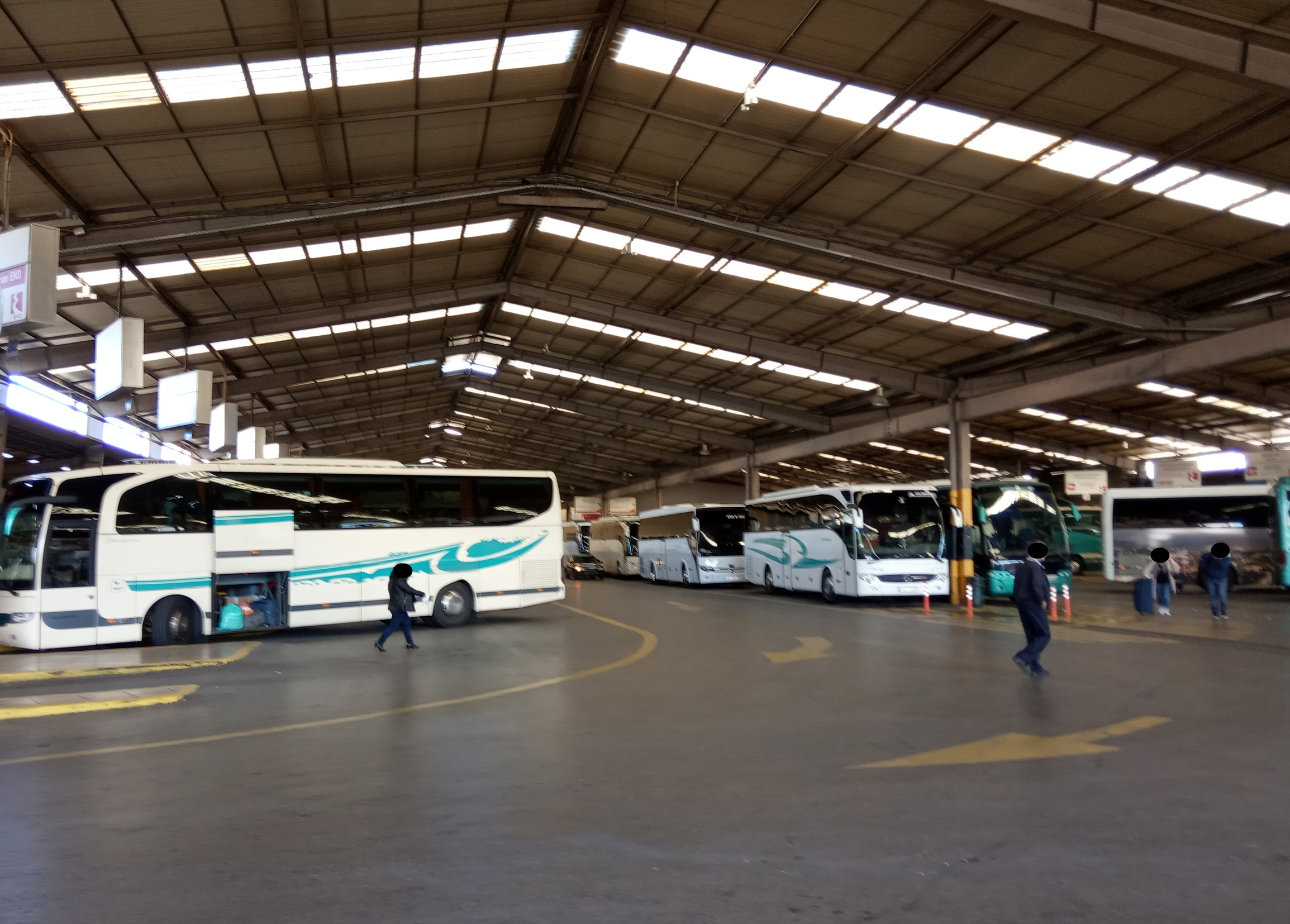 This is the largest intercity bus station in Athens. The only bus operator (in 2019) is KTEL (greece)